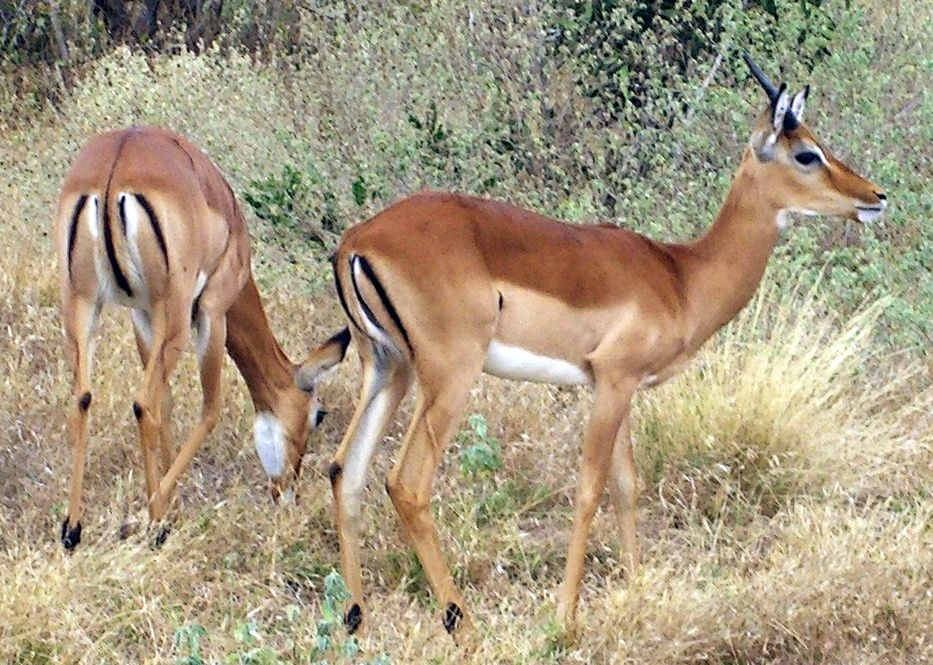 Aepyceros melampus melampus in Tsavo East National Park, Kenya